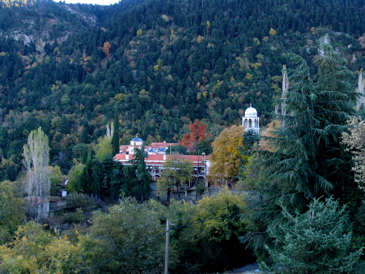 Agathonos monastery in Fthiotis prefecture, Greece